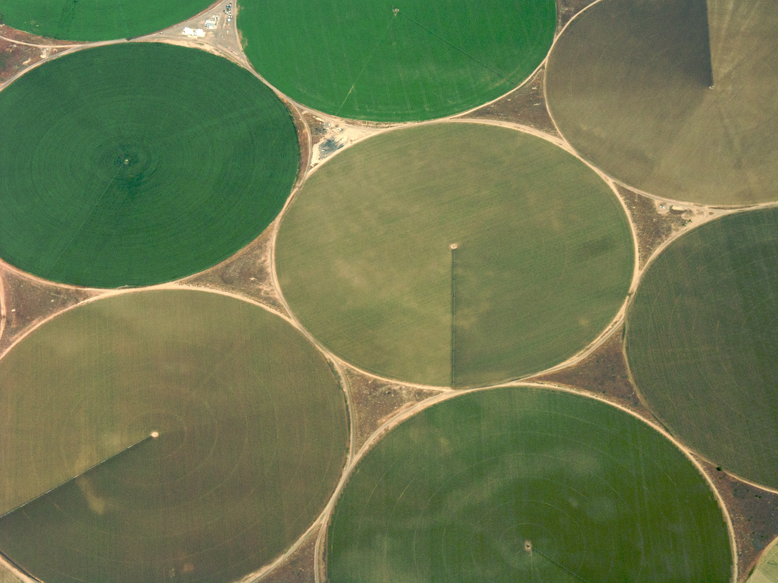 Crop circles north of Umatilla, Oregon, USA